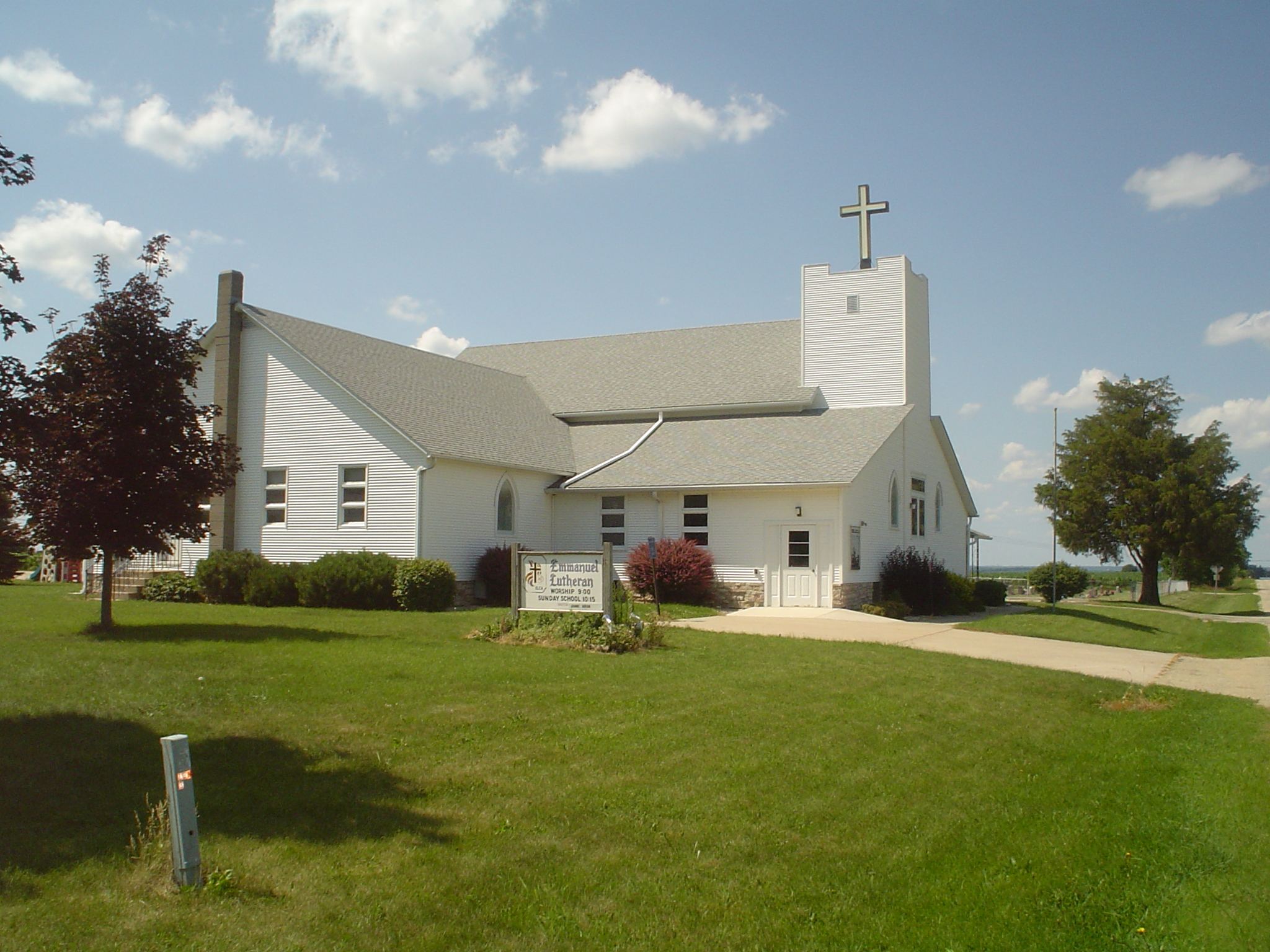 A churched named Emmanuel Lutheran in Paynes Point, Illinois, USA.